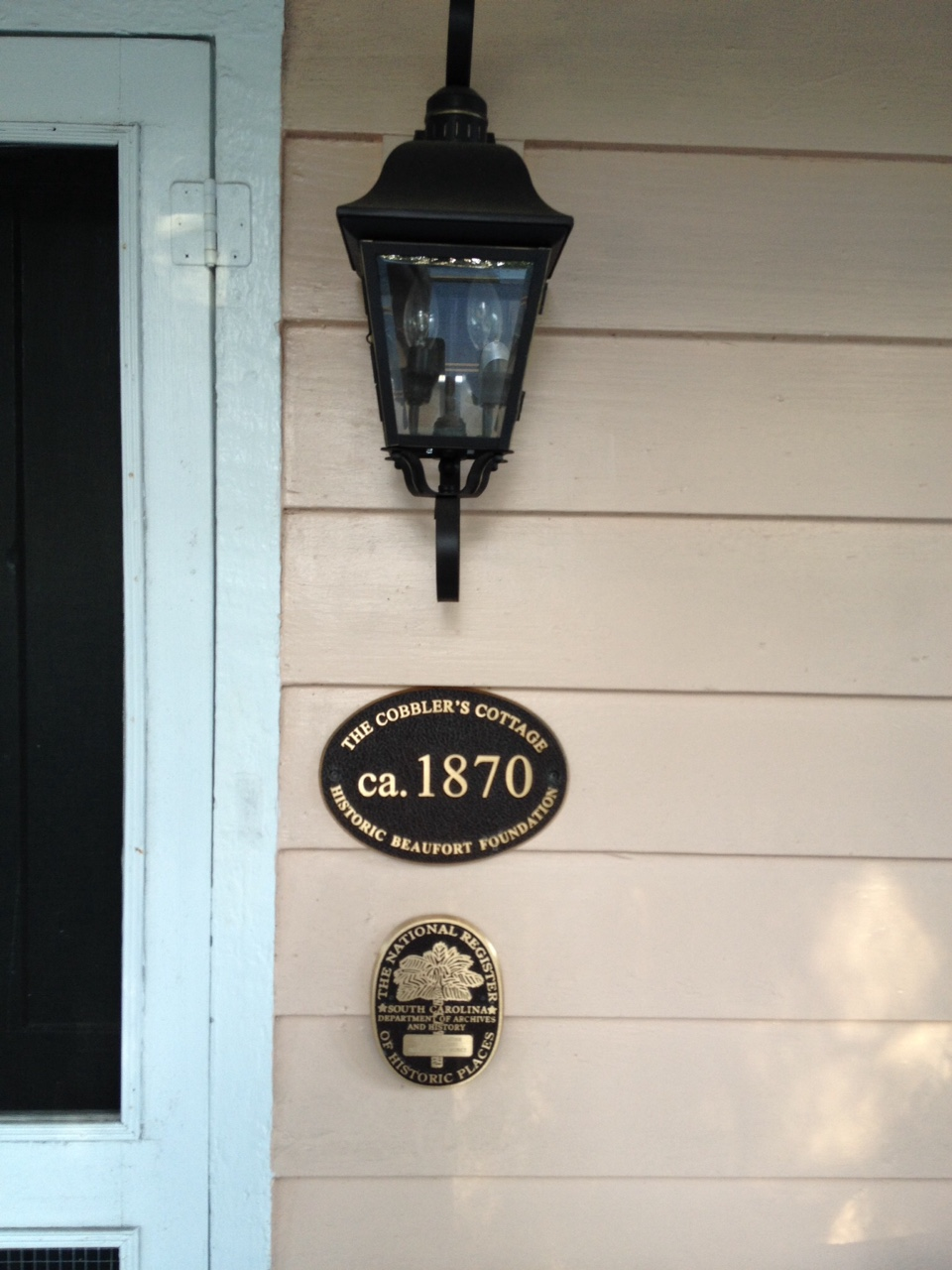 Historical plaques mounted by front door of the The Cobbler’s Cottage located at 713 Charles Street, Beaufort SC.